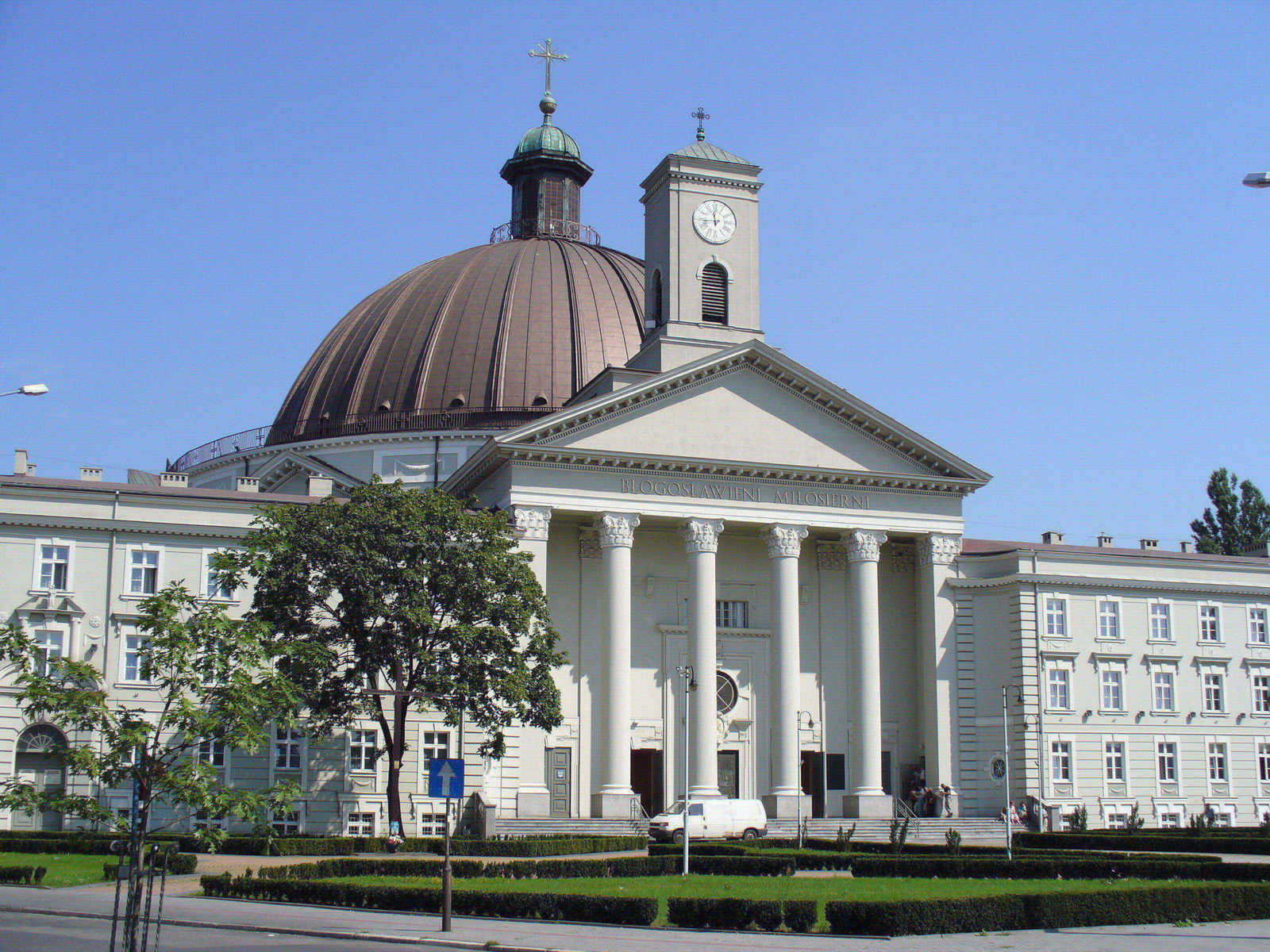 Vincent de Paul Basilica in Bydgoszcz